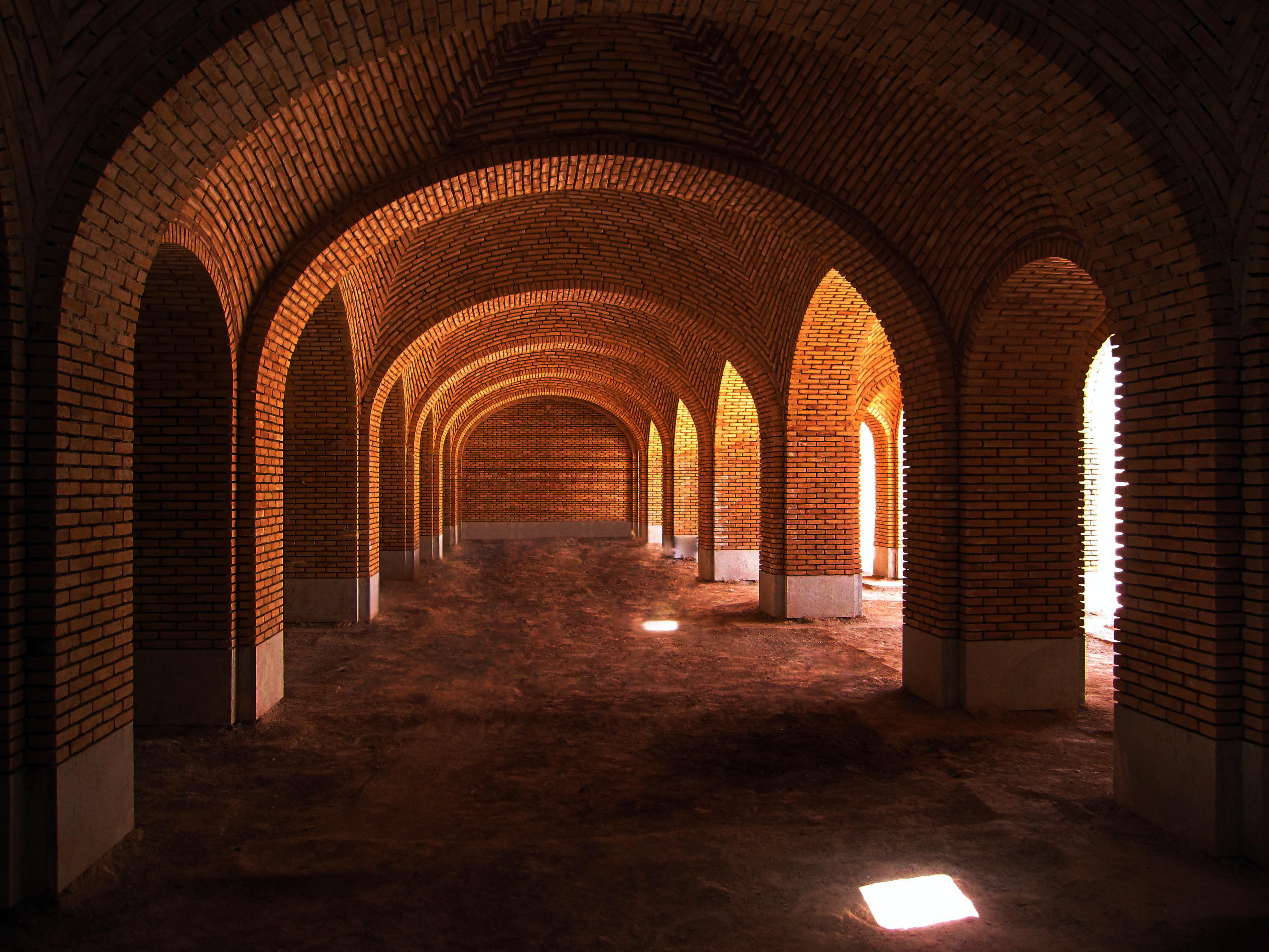 Mosalla bridge Borujen Iran